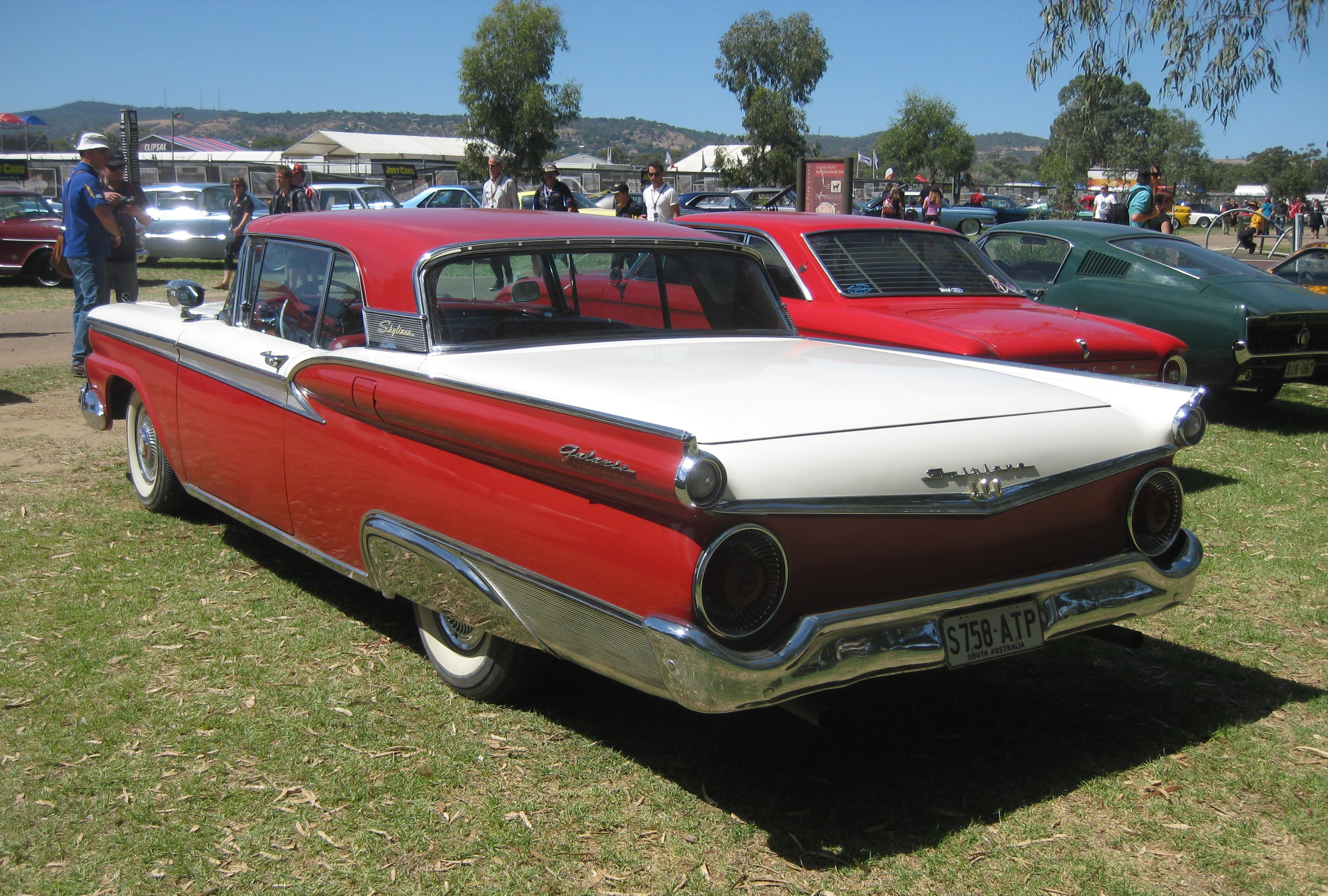 1959 Ford Galaxie Skyliner. Although the 1959 Galaxie was classified as a separate model series from the Fairlane 500, the cars carried both Galaxie and Fairlane 500 badges.